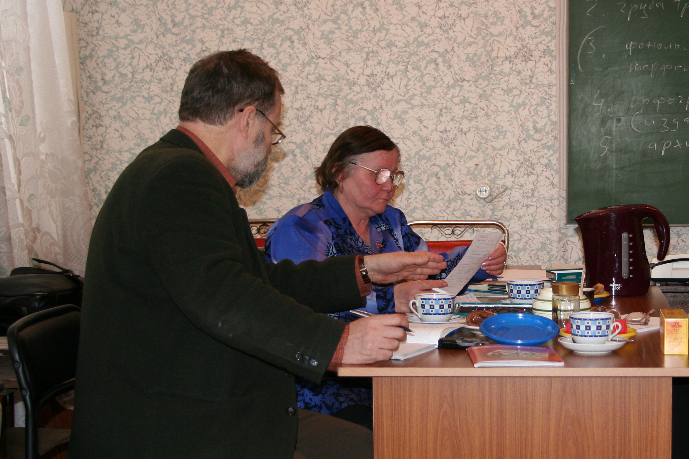 Nina Afanasyeva and Jurij Kusmenko (left) during elicitation in Murmansk (March 2006)